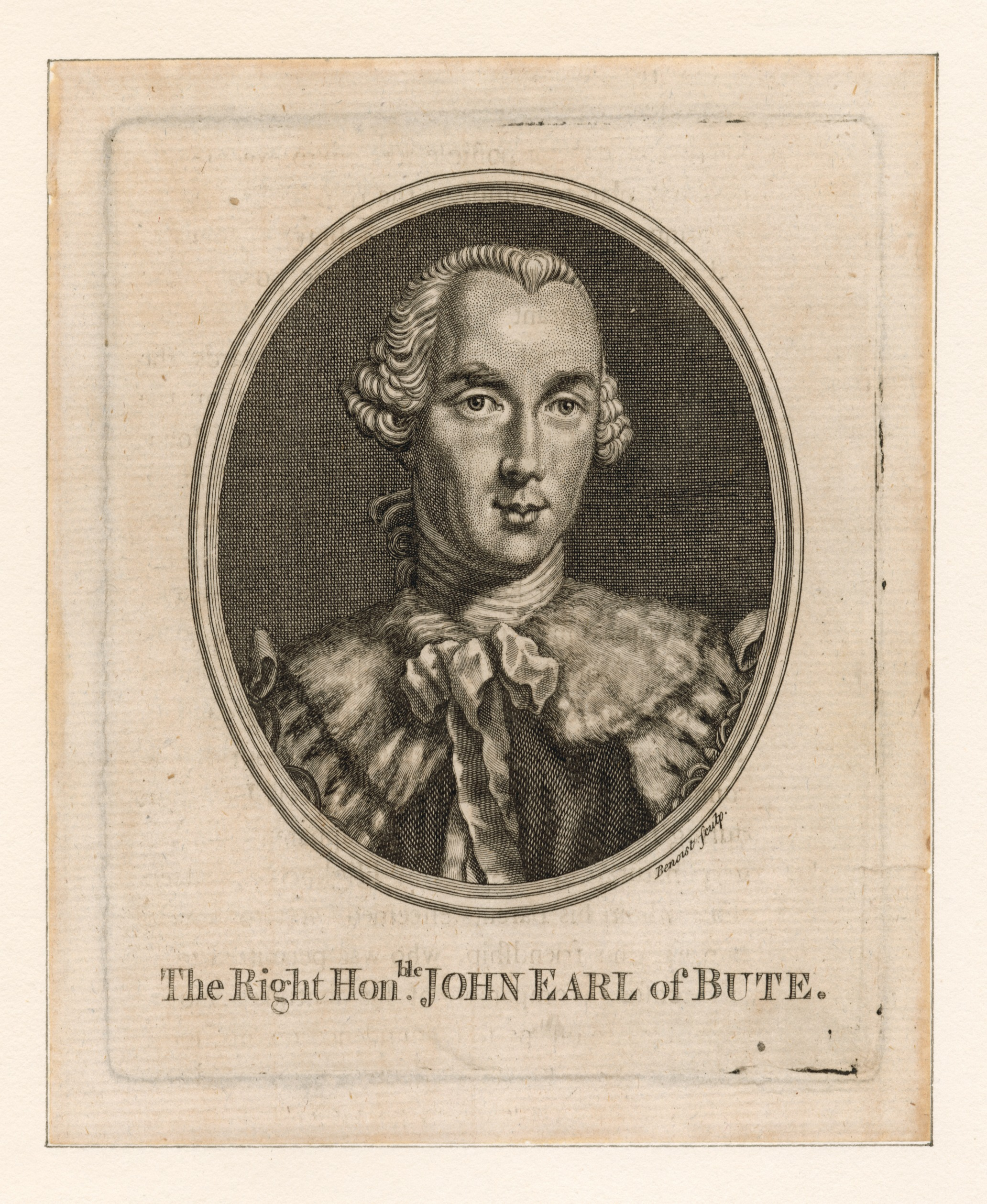 Engraved by Benoist. EM1840